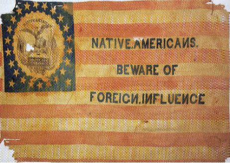 Flag of the Know Nothing or American party, c. 1850